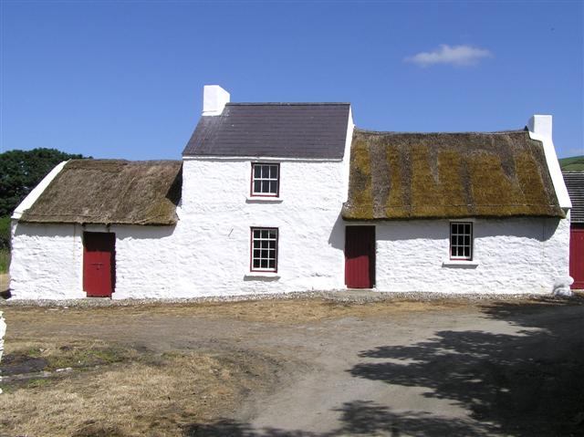 The Wilson Homestead, Dergalt. James Wilson left this house for America in 1807 when he was 20. The Wilsons still occupy the modern farmhouse next door and are full of stories about the fascinating Wilson photographs and artifacts. Open April-Sept Mon-Sun 2-6 pm. Adult 25p, child 15p. - not very expensive! The Tyrone cottage - once owned by the family of Woodrow Wilson - is now owned by the Ulster American Folk Park near Omagh. Woodrow Wilson was the 28th president of the US, from 1913 to 1921. According to author Billy Kennedy, James Wilson (grandfather of the president) was 20 years old when he emigrated from Dergalt to Philadelphia in 1807. He had recently completed a printer's apprenticeship at Gray's Printing Shop. Printer John Dunlap printed the American Declaration of Independence in 1776. More recent image and description of fire damage 58383